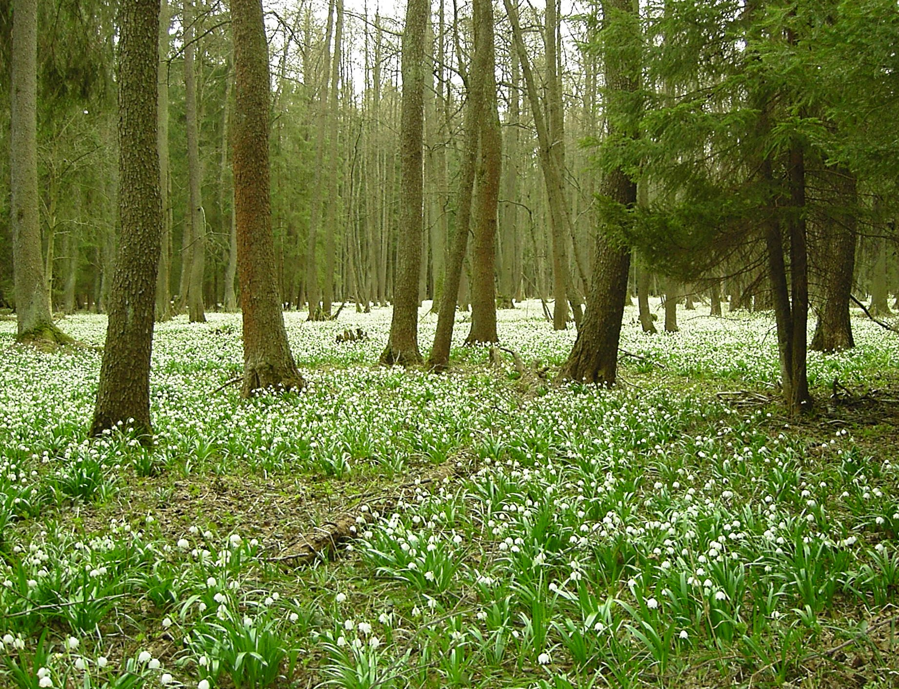 Nature reserve Králova zahrada - alderwood with Spring Snowflake